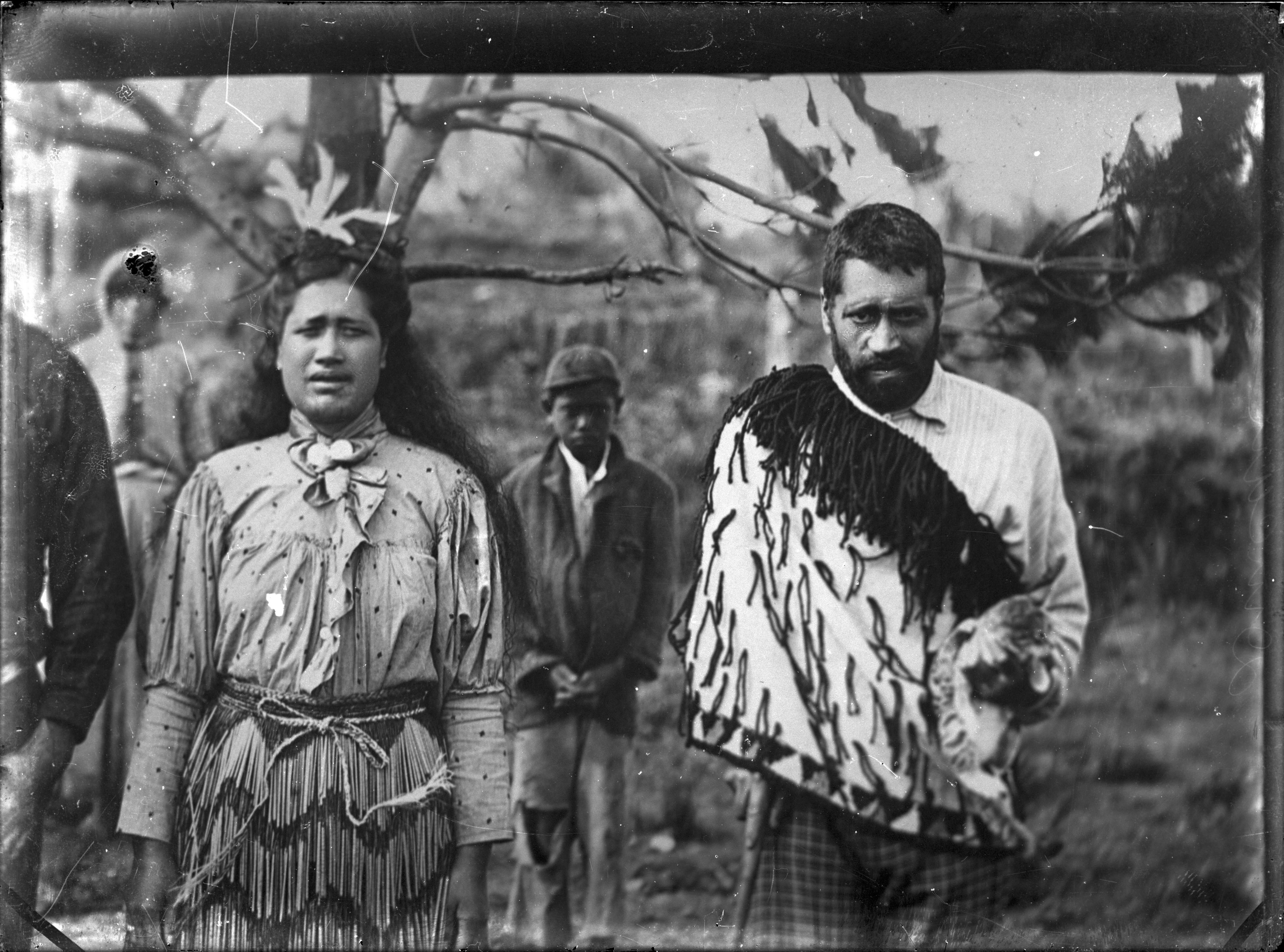 Three unidentified Maori, part of a larger group, with two others partially obscured on the left. The woman has very long hair, and is wearing a European blouse and a piupiu (flax skirt). The man is wearing a European shirt, with a kakahu (cloak), and is leaning on a walking stick. The young boy standing behind is wearing European clothes. This image is a copy negative made by Albert Percy Godber from an original by an unidentified photographer. Location and date are unidentified.